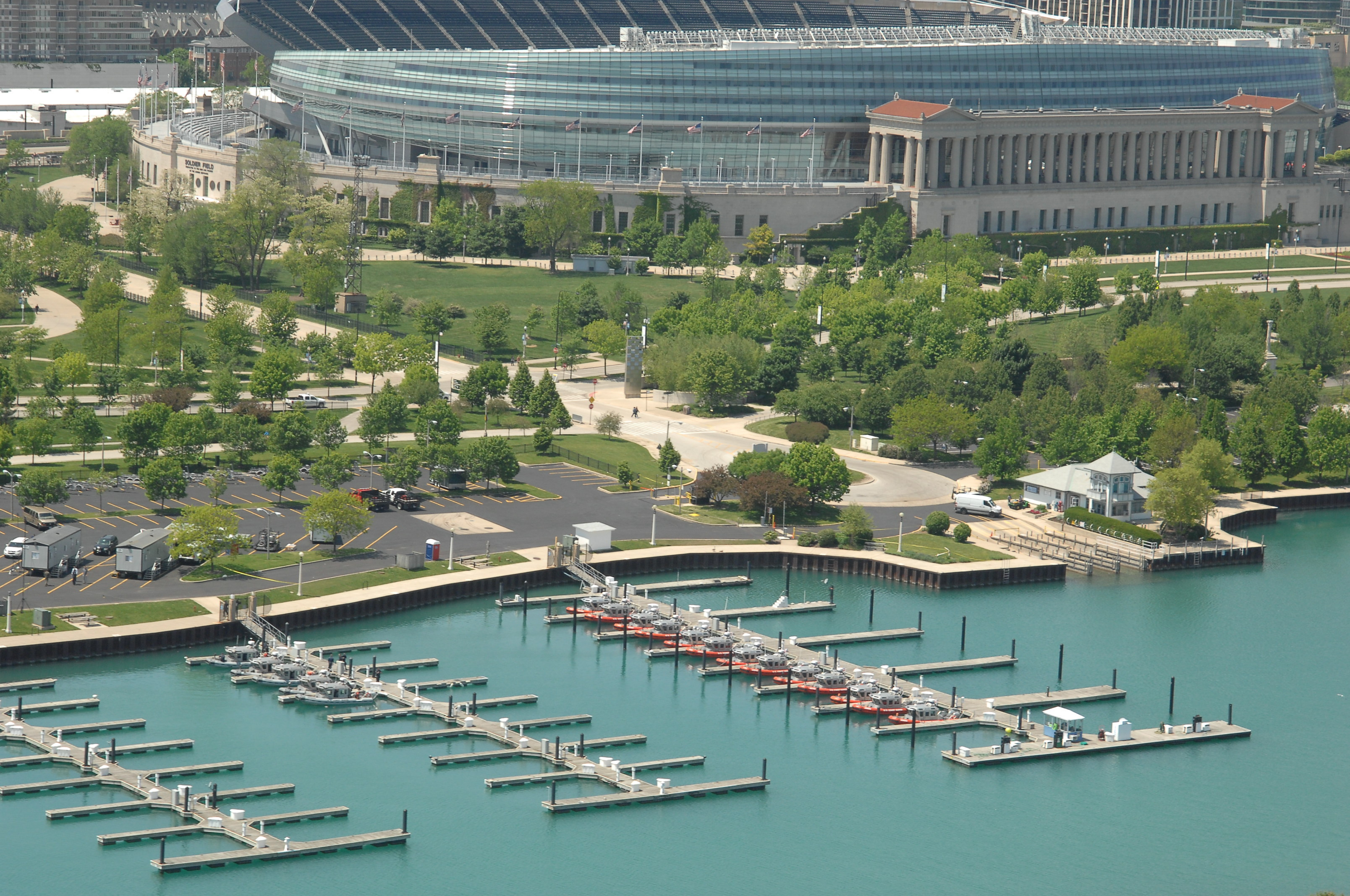 CHICAGO - Coast Guard smallboats temporarily stage in Burnham Harbor near McCormick Place, site of the NATO Summit being held this weekend, in preparation for security operations, May 17, 2012. The Coast Guard is partnering with other federal, state and local law enforcement agencies to patrol the Chicago River and parts of Lake Michigan near the Summit. Coast Guard photo by Chief Petty Officer Alan Haraf.